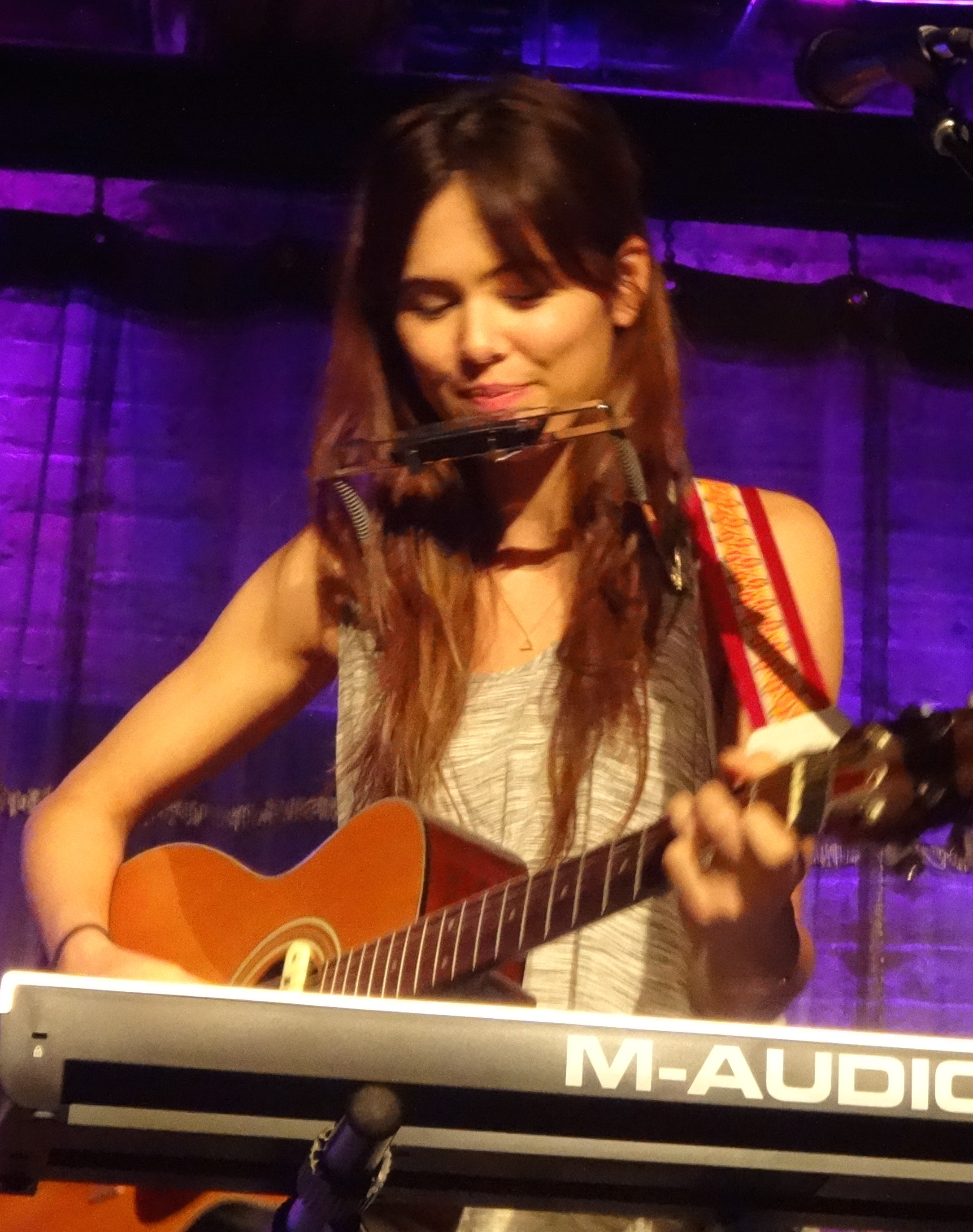 Priscilla Ahn playing guitar and harmonica at SPACE in Evanston IL